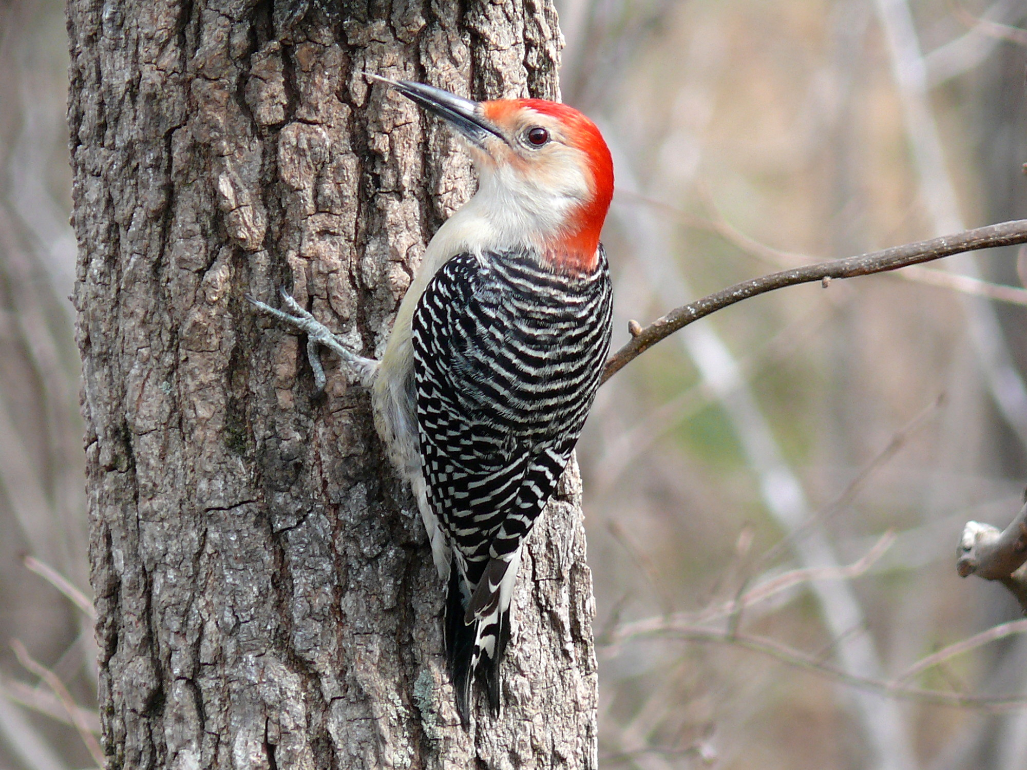 A male Red-bellied Woodpecker (Melanerpes carolinus).Photo taken with a Panasonic Lumix DMC-FZ50 in Johnston County, North Carolina, USA.